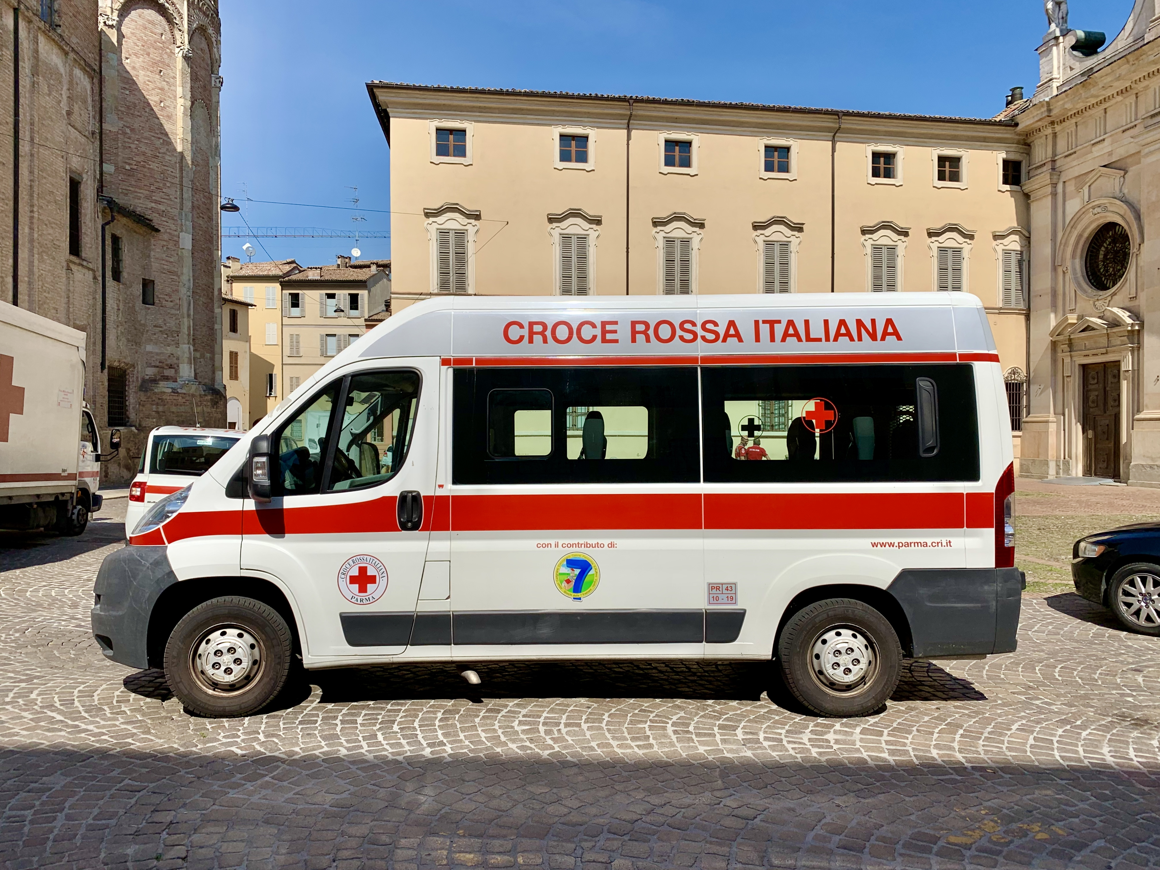 Ambulance of the Italian Red Cross in Parma, 2019